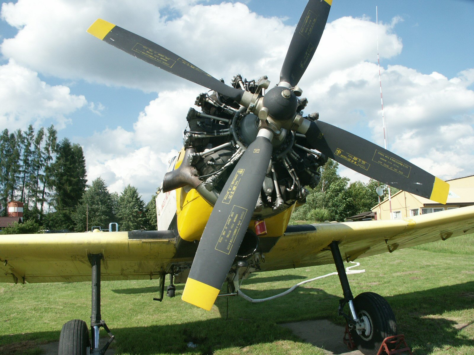 PZL M-18 Dromader - Polish agricultural and firefighting aircraft - PZL (Shvetsov) ASz-62 engine, at Kielce-Masłów airfield